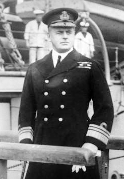 British Admiral of the Fleet Hedworth Lambton Meux (1856-1929)